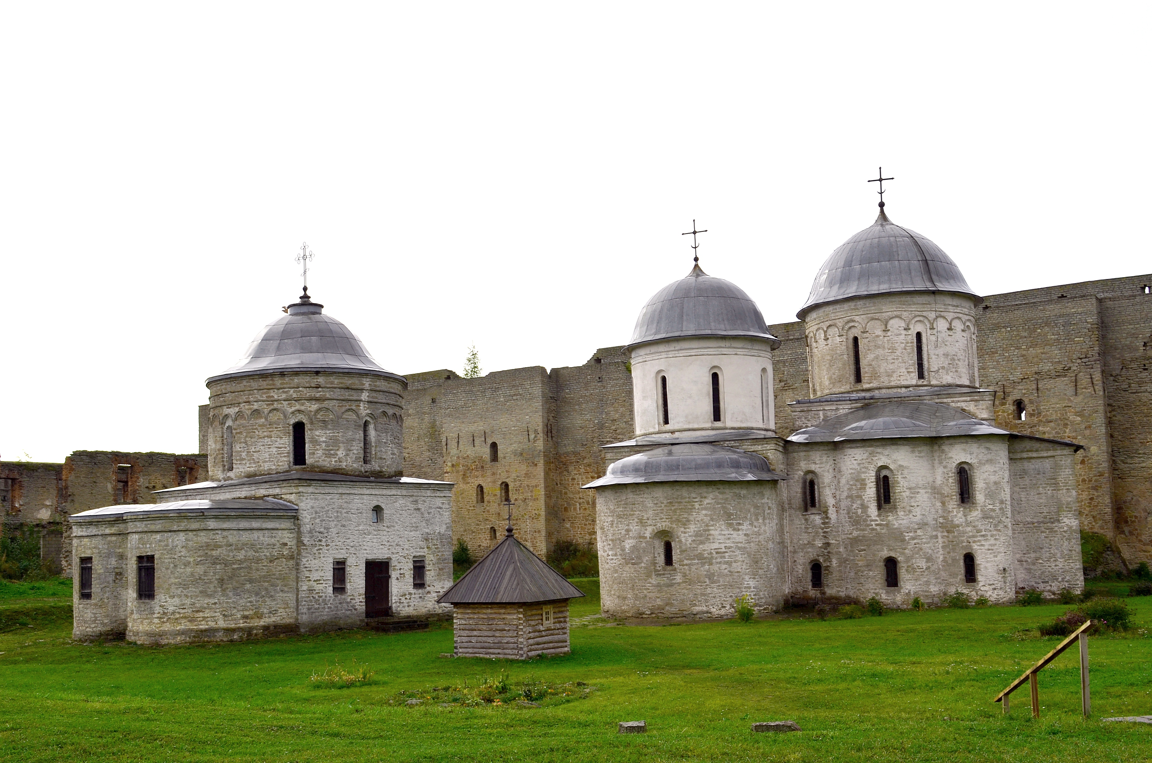 Big Bojarshy Town. Maiden Mountain, Cathedral of the Assumption and Nikolsky church. Ivangorod, Kingisepp district, Leningradskaya Oblast